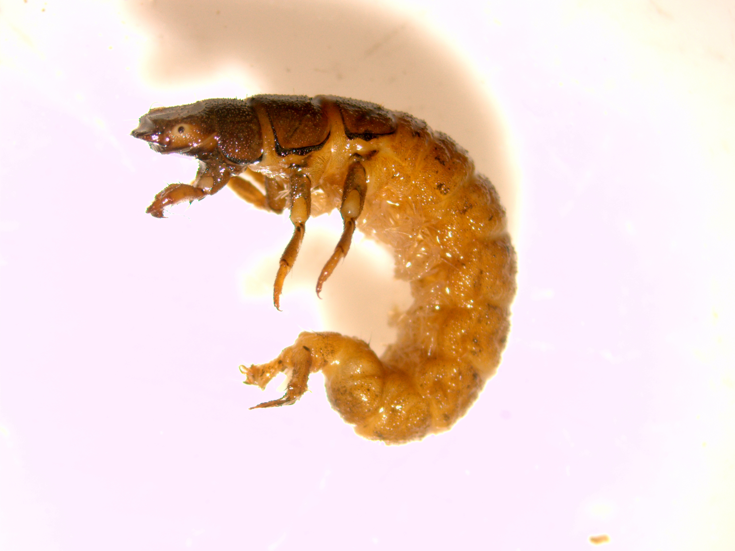 Hydropsyche saxonica larva from Božička river, SE Serbia.